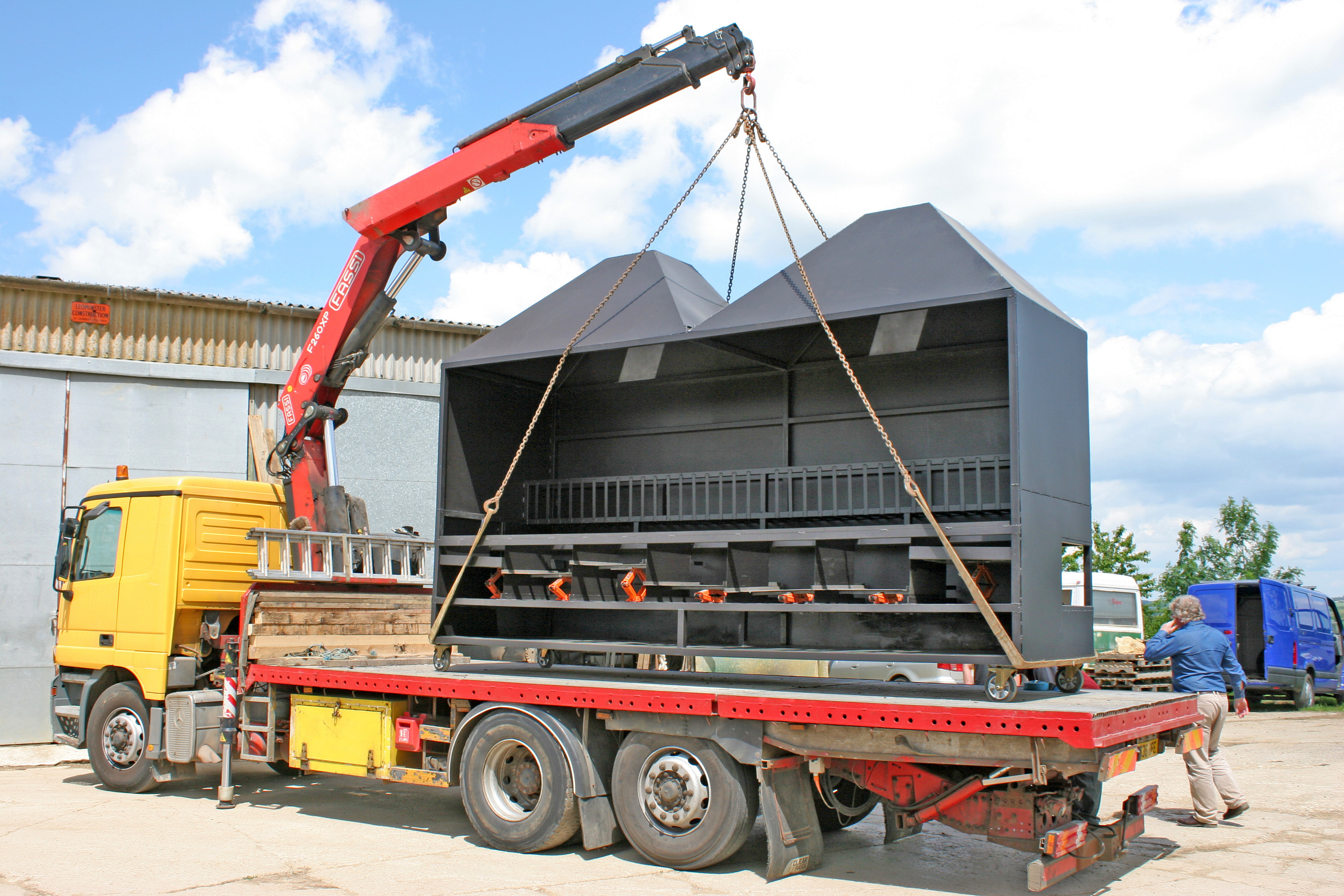 The world's biggest BBQ, for cooking 7 whole lambs and 1000 sausages at once. Designed and made by The Bespoke BBQ Company. Commissioned by Cripps Catering.